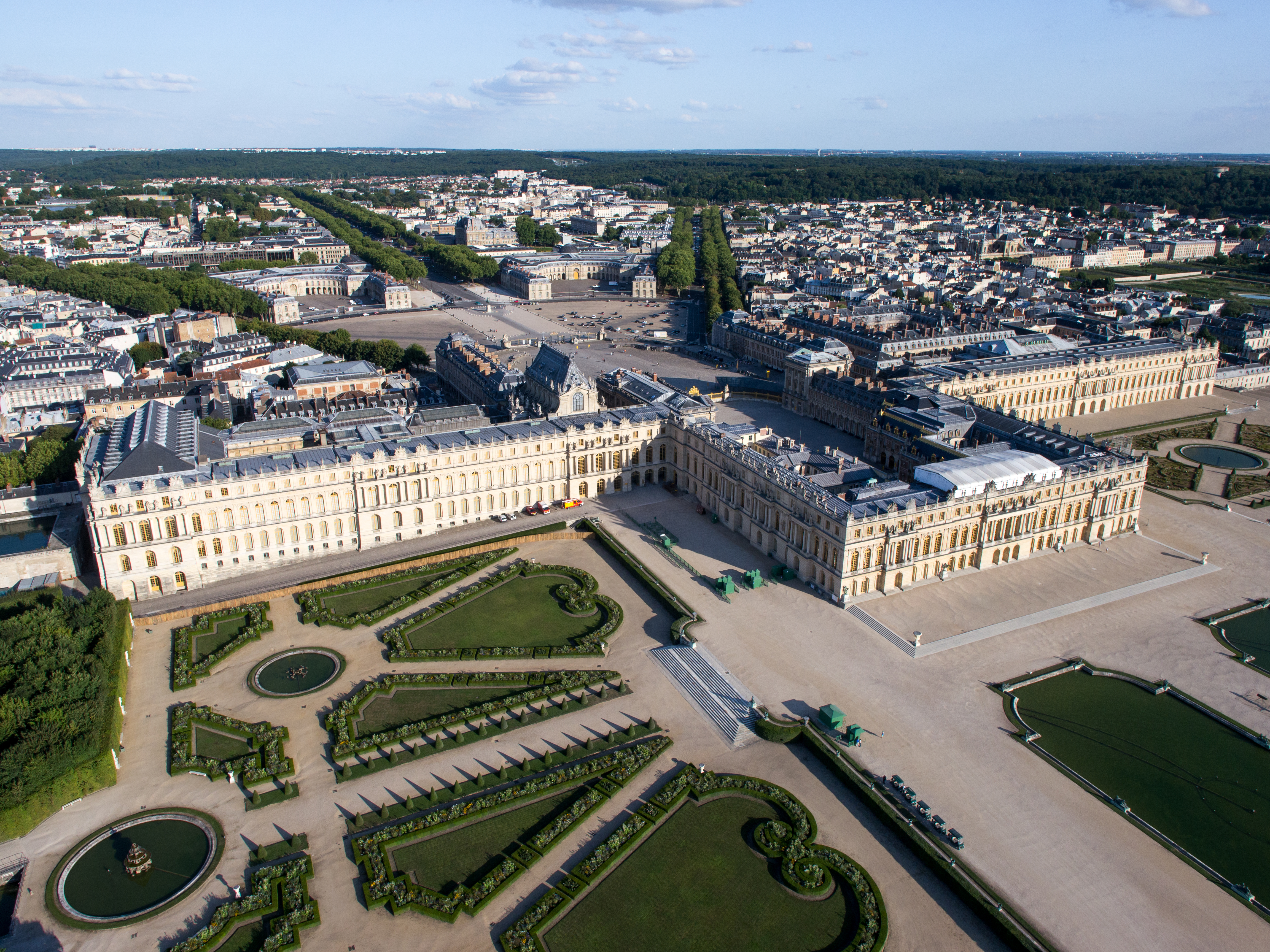 Aerial view of the Palace of Versailles, France